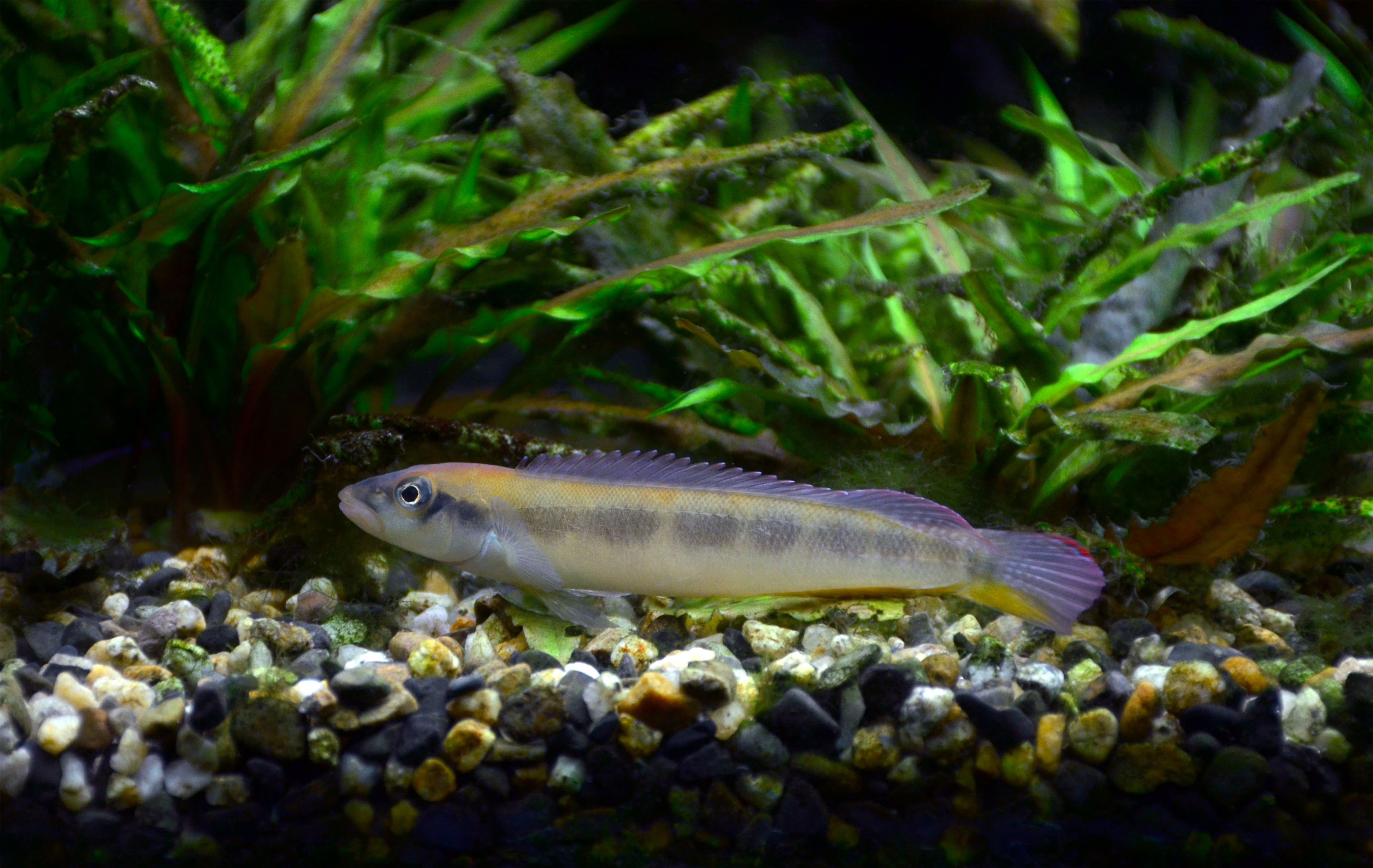 Dwarf pike cichlid ( Teleocichla prionogenys ). Aquarium tropical du Palais de la Porte Dorée, in Paris.